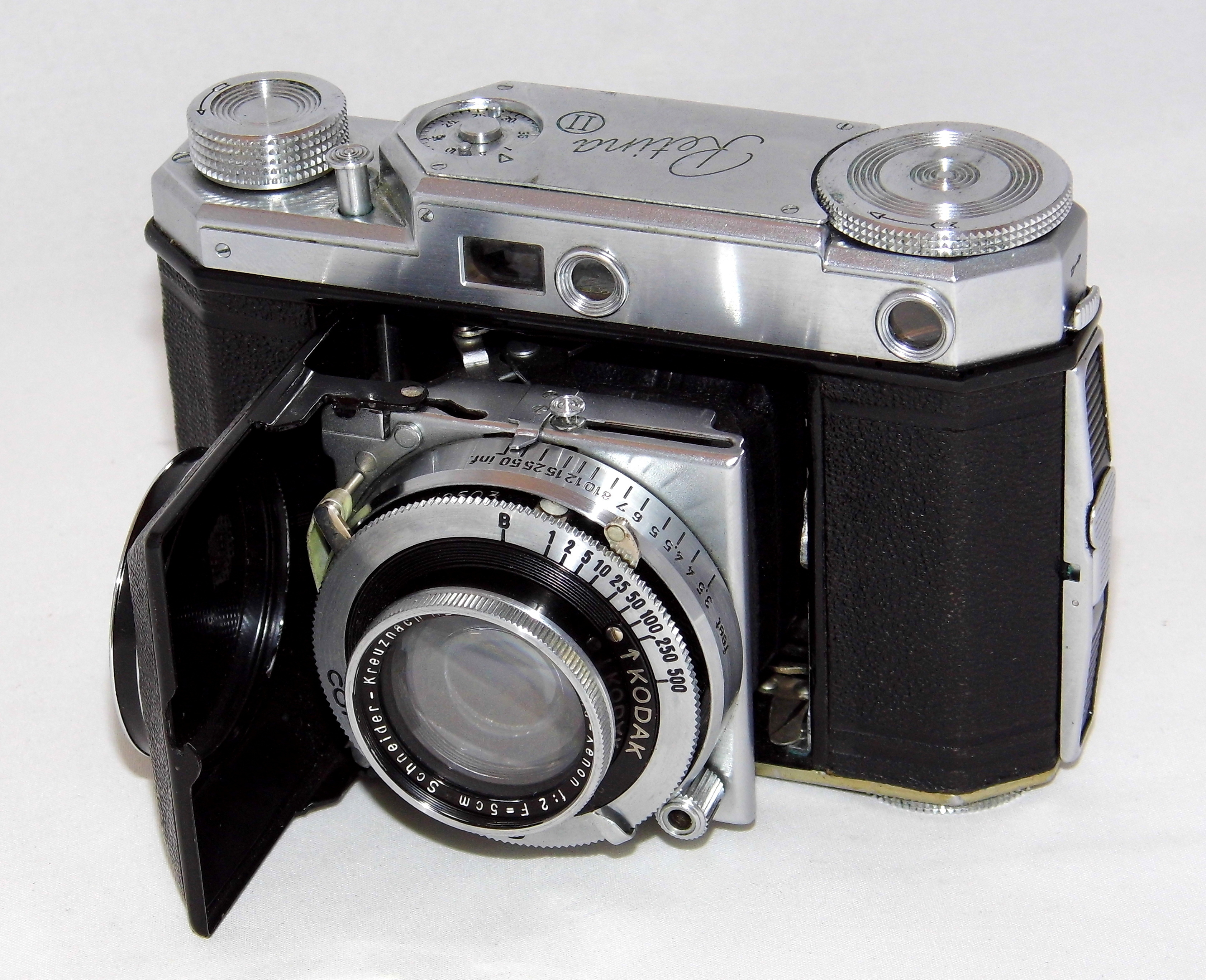 Auction Item 133 - To be auctioned by Cledis Estes Auctions II in Medina, Ohio.